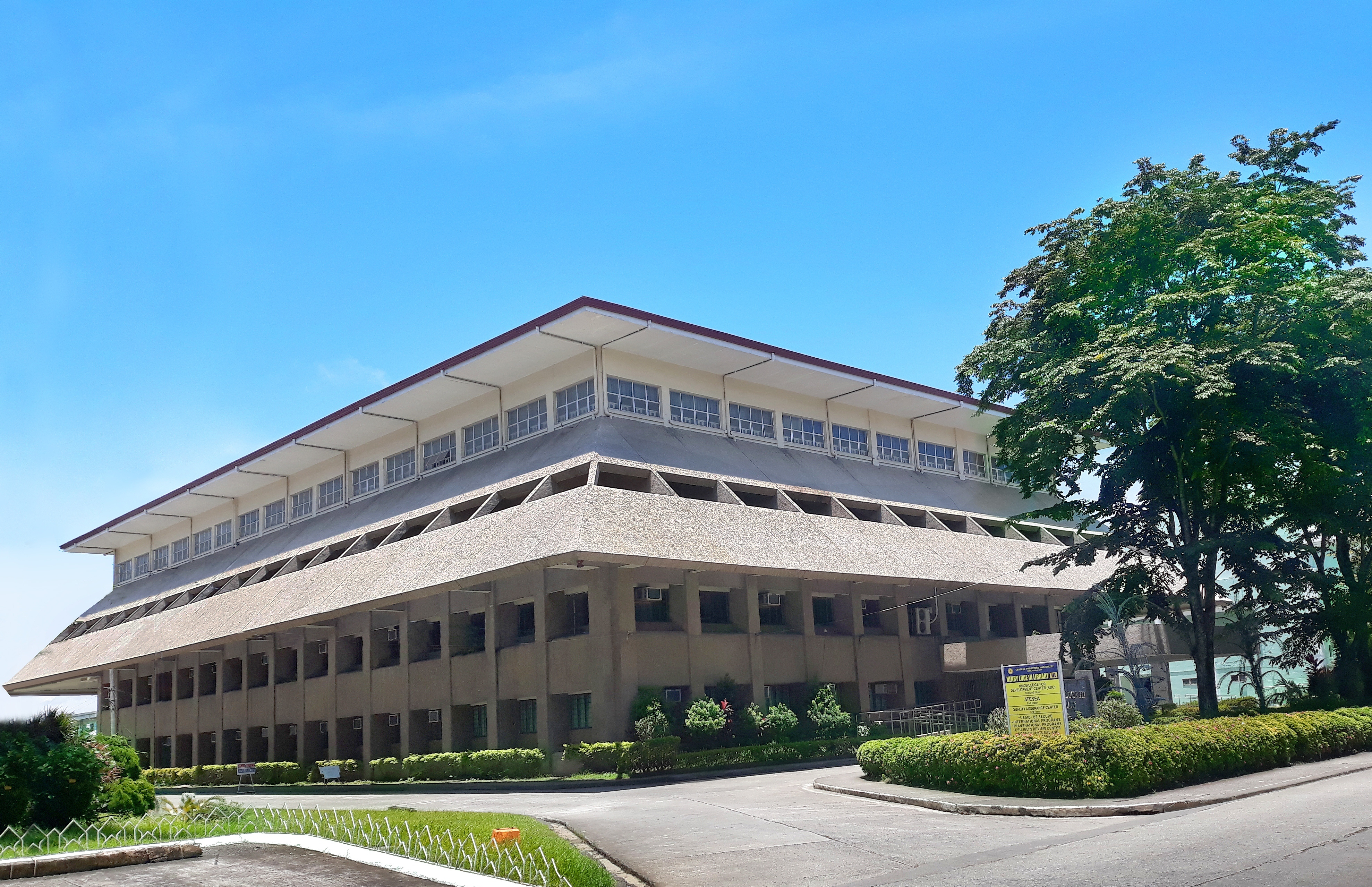 Henry Luce III Library of Central Philippine University